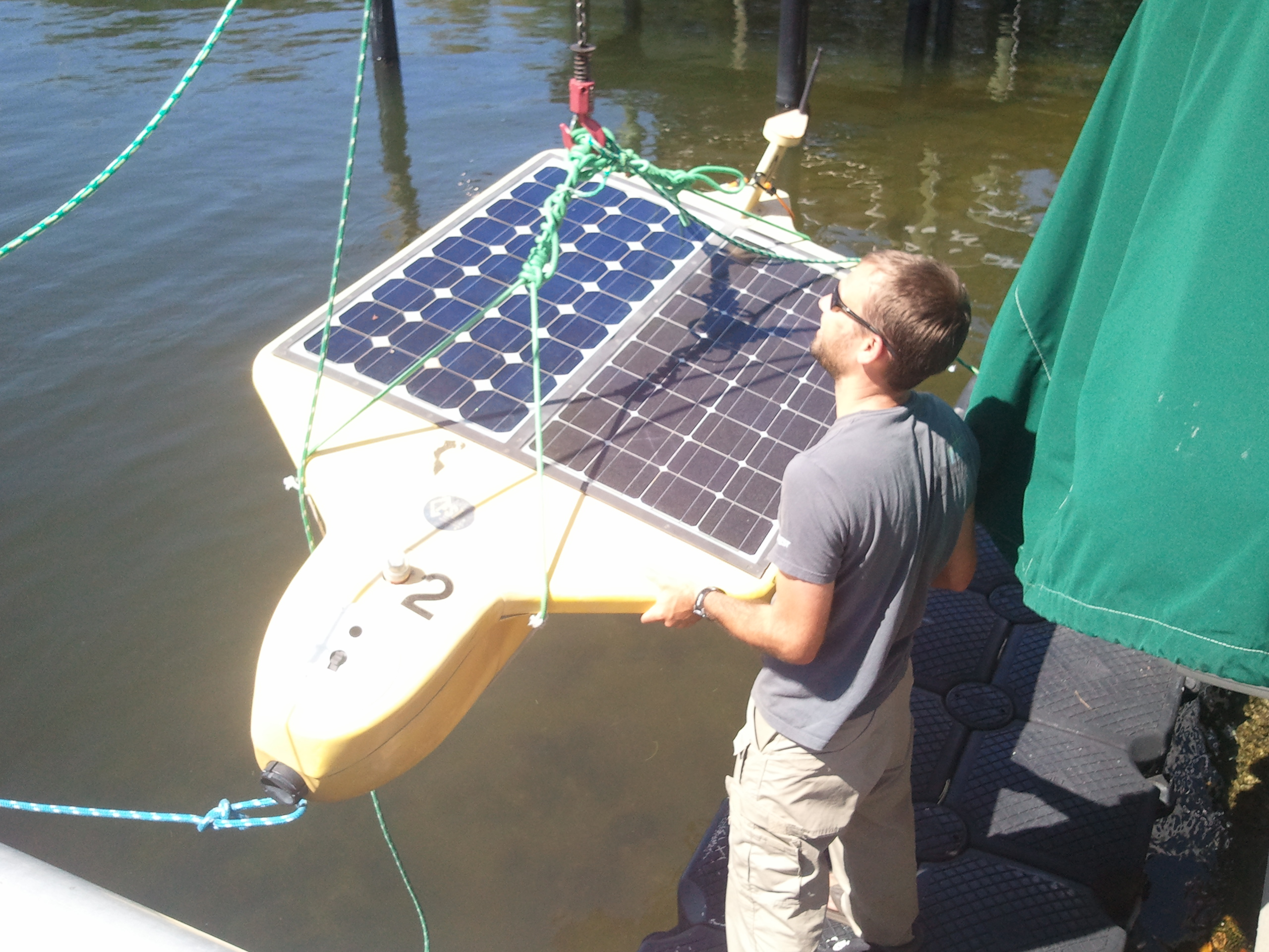 A researcher from the University of South Florida deploys Tavros02, a solar-powered "tweeting" autonomous underwater vehicle (SAUV) for ocean monitoring applications.